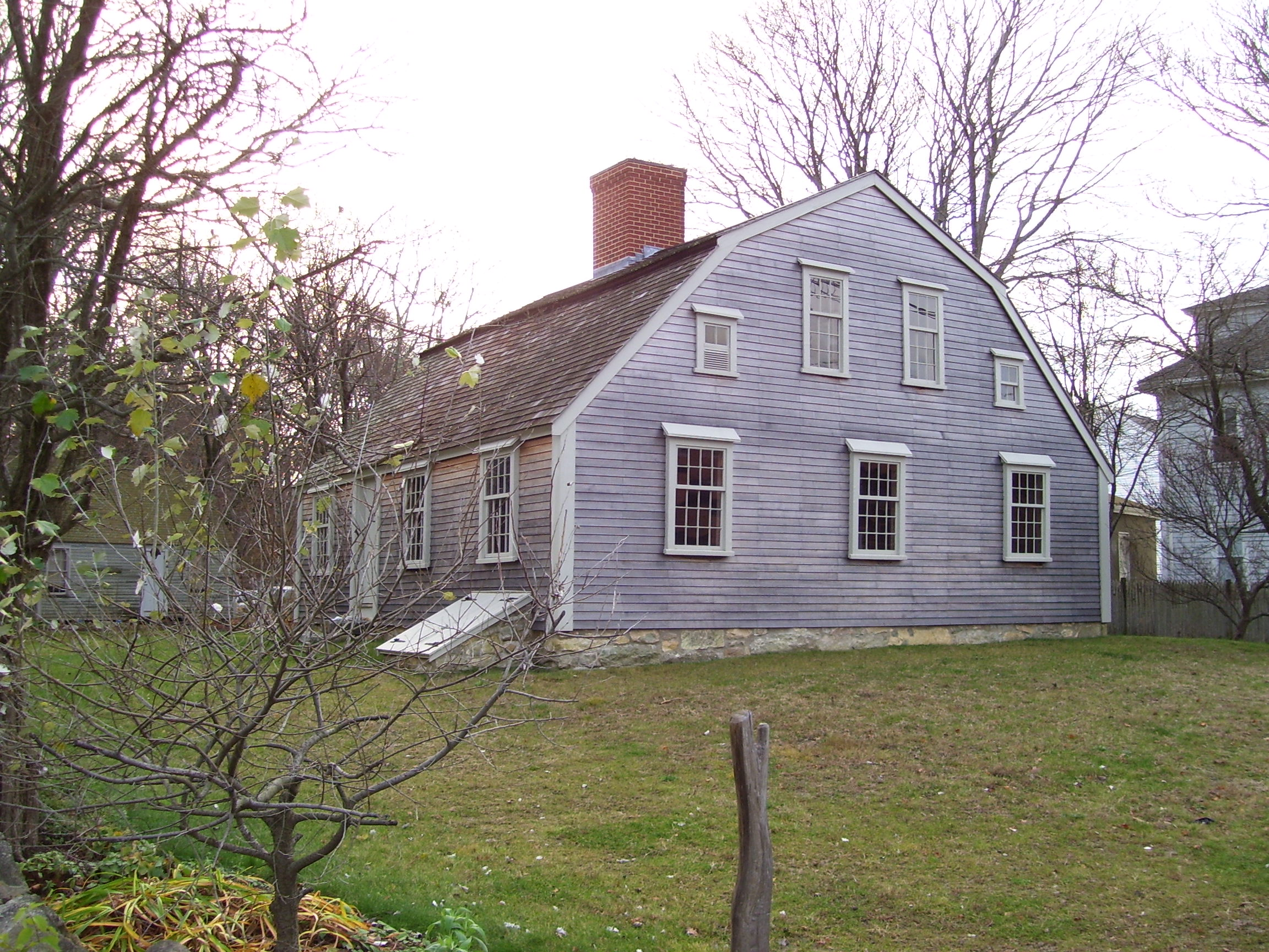 My 2009 photo of the Harlow Old Fort House in Plymouth, MA, Massachusetts, USA.